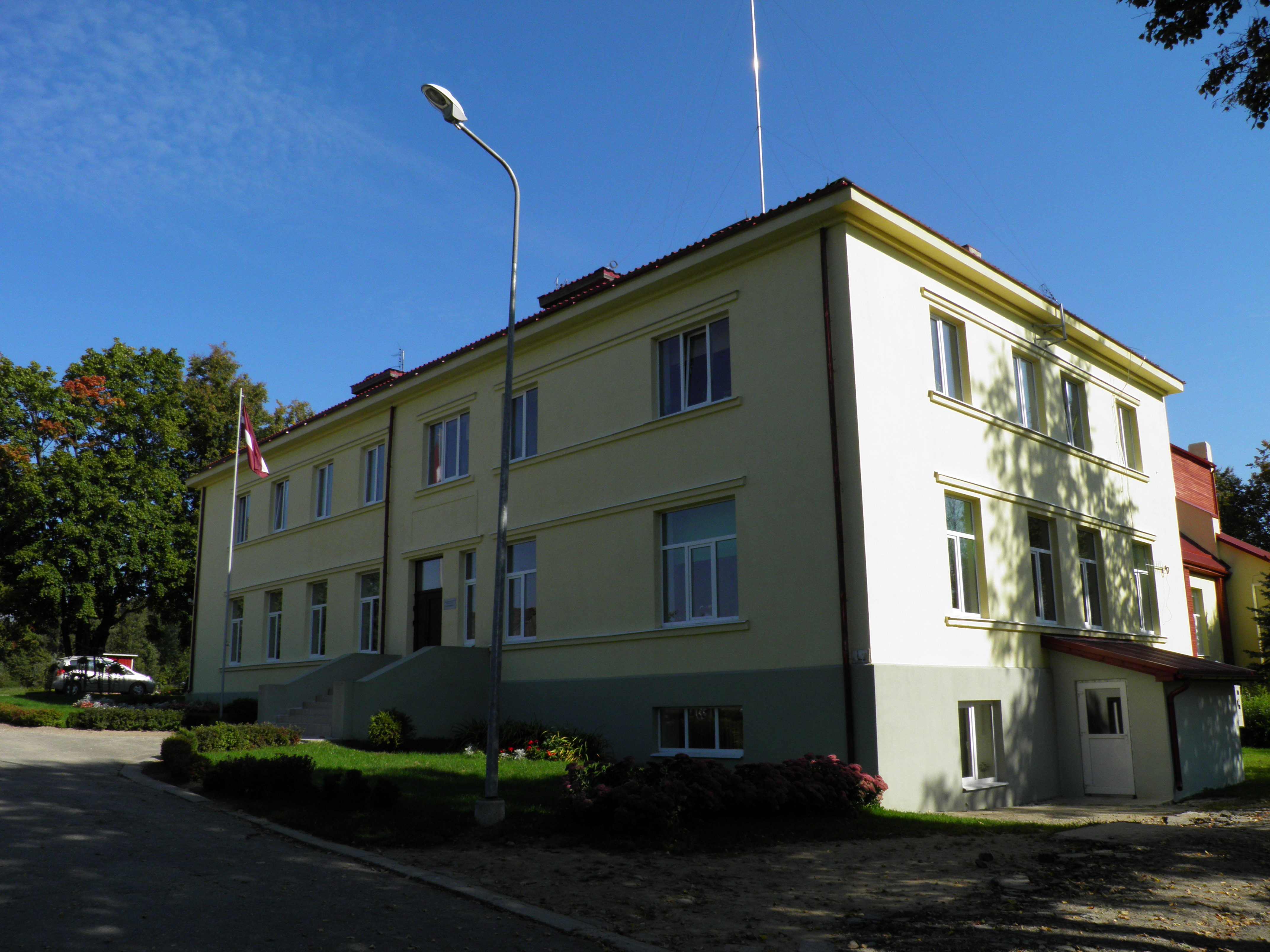 school